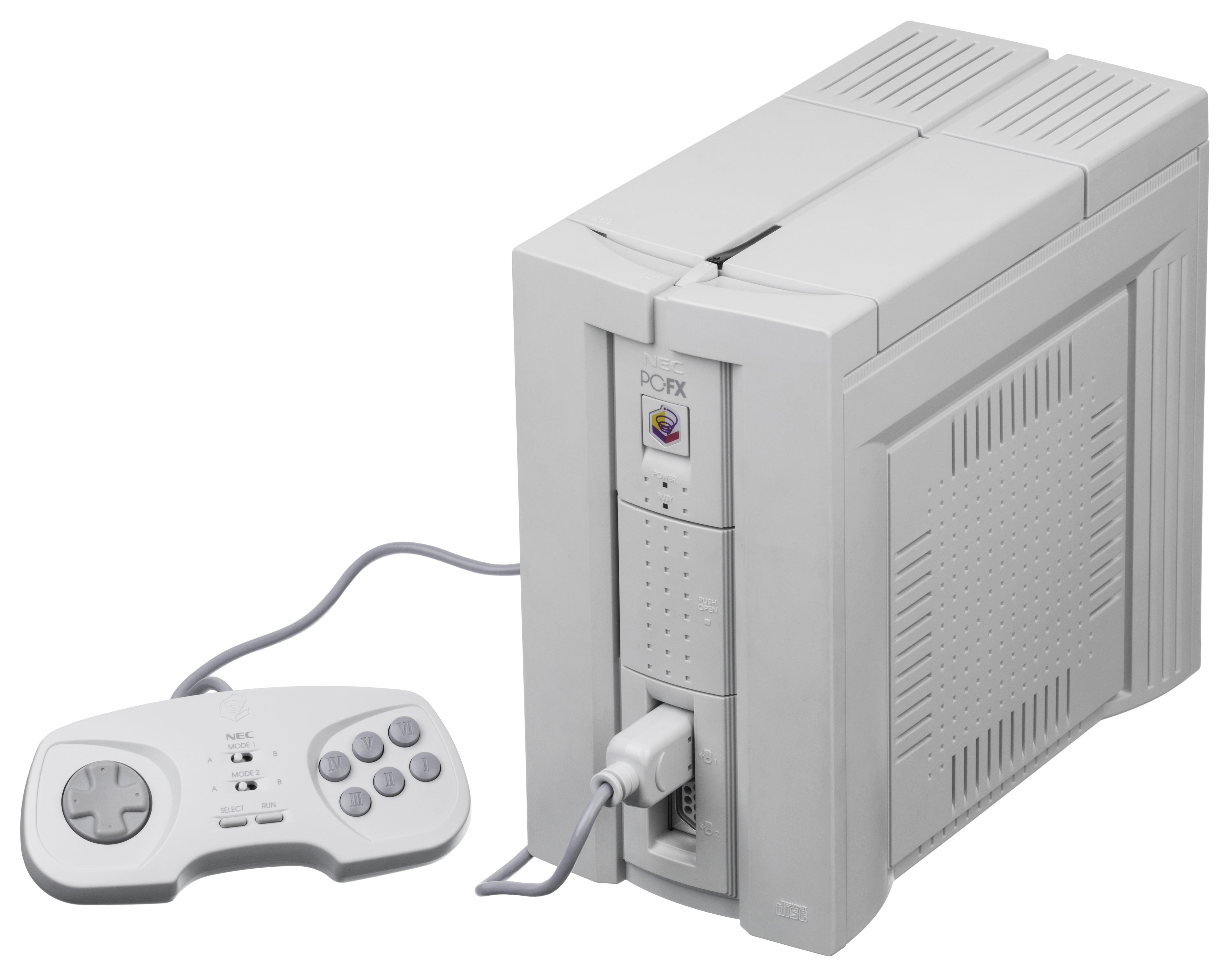 The PC-FX, a fifth-generation gaming console by NEC. Released only in Japan in 1994, the PC-FX was an unsuccessful follow-up to the PC Engine console line. It was a CD-based system whose design was reminiscent of a PC tower.